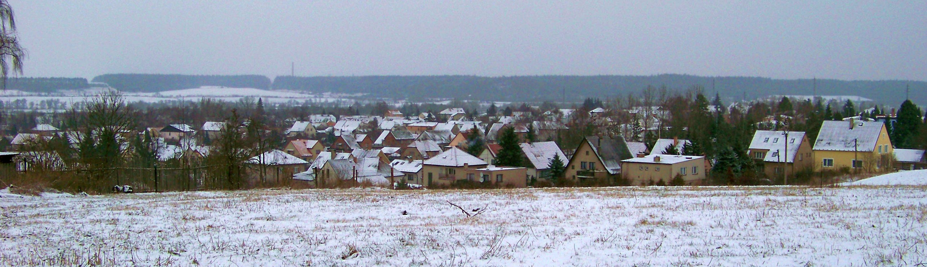 Tuchlovice, Kladno District, Central Bohemian Region, the Czech Republic.